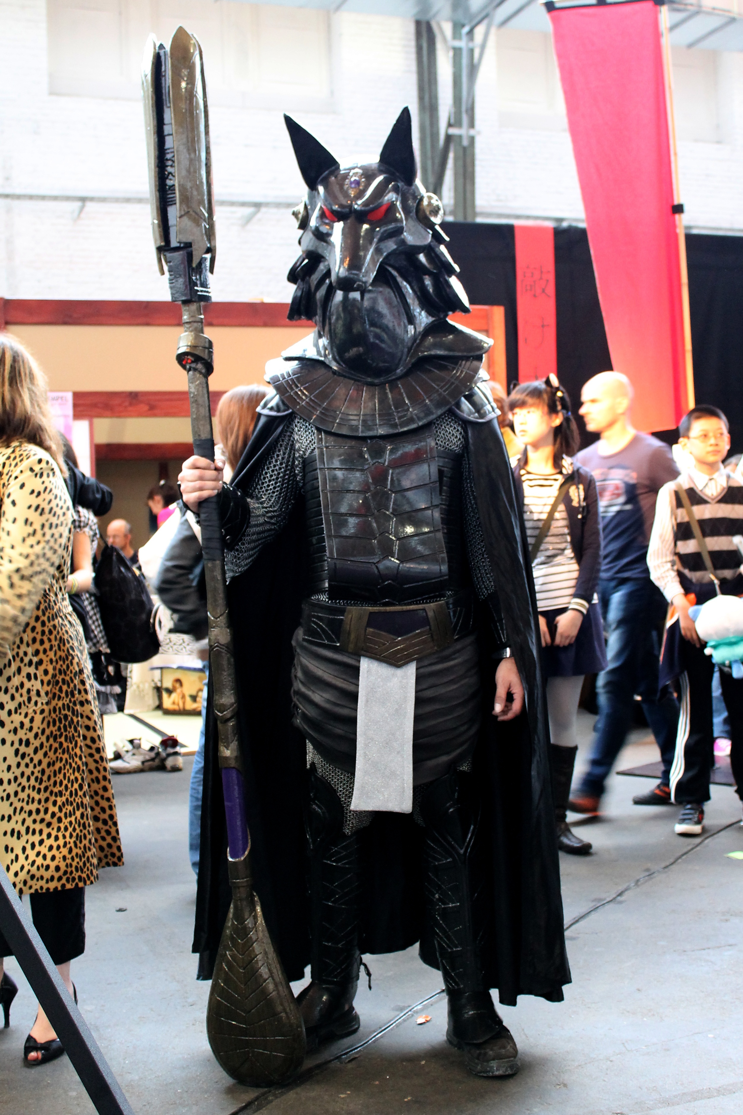 Stargate Guard, Japan Expo Brussels 2011